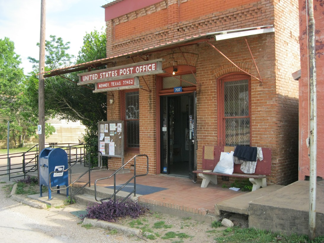 Photo shows the US Post Office on Loop 497 in Kenney, Texas. View is toward the south.